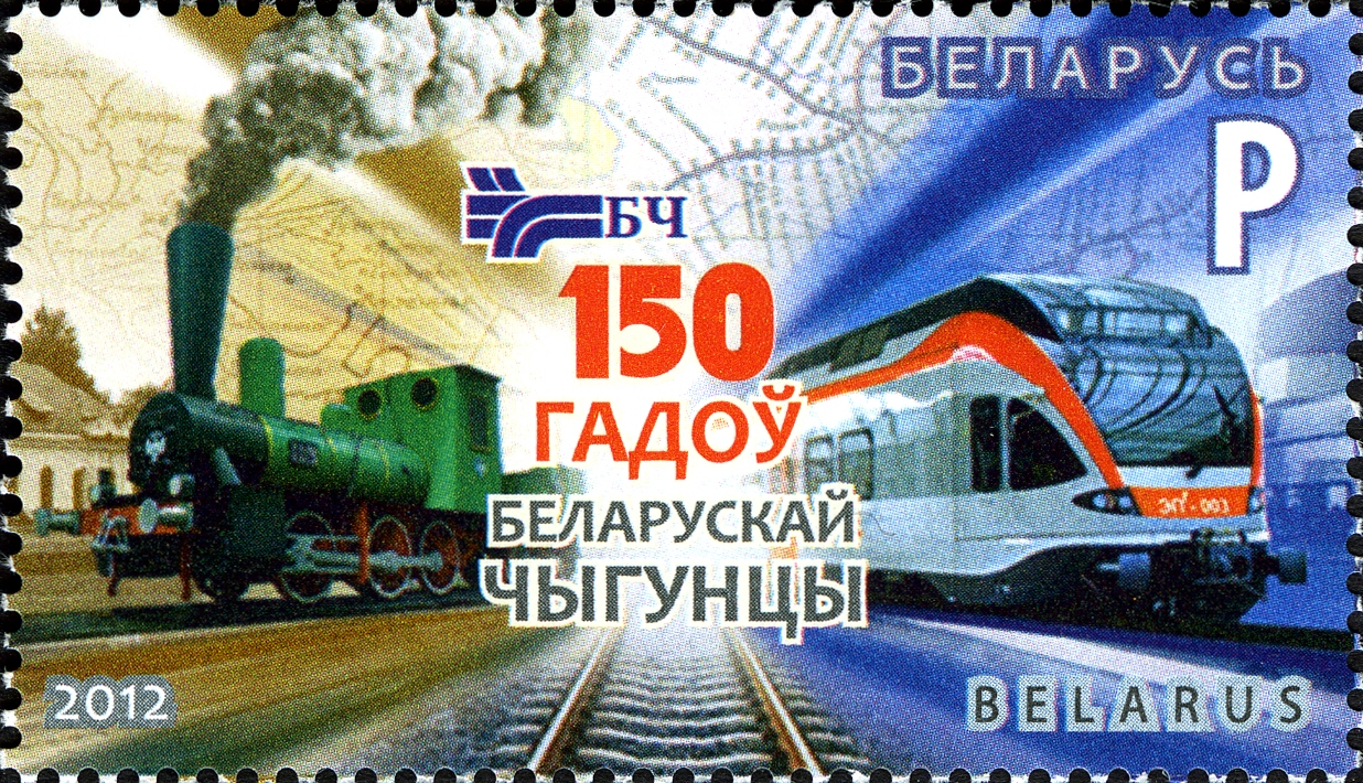 Stamp of Belarus